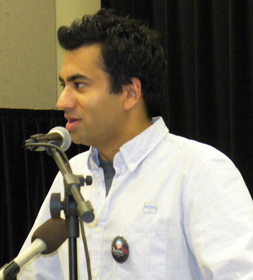 Kal Penn speaking at a rally for Barack Obama at the University of Maryland's Nyumburu Cultural Center on February 8, 2008. Photograph by Justin Cousson.